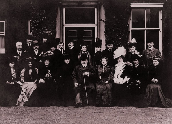 Black-and-white photograph of a party at Rangemore Hall on January 5, 1907, attended by King Edward VII (last at Rangemore in 1902), with his wife Queen Alexandra. Also present in the photograph is Mrs. Keppel, the King's mistress, seated in front of the Queen. In the rear are the Austro-Hungarian Ambassador and Lady Alice Stanley. In the back row are: Hon. Col. Legge, Marquis of Soveral, Duchess of Devonshire, Mr Hamar Alfred Bass, Lord Elcho, Miss Jane Thornewill, H.M. Queen Alexandra, Lord Burton (Michael Arthur Bass), Lady Mar & Kellie, Prince Henry of Pless. In the front row are: Front Row: Lady Noreen Bass, Miss Muriel Wilson, Lady Desborough, Lady de Grey, H.M. King Edward VII, Lady Burton (Harriett Bass), Princess Henry of Pless, Mrs Alice Fredrica Keppel, Miss Bunny Thornewill.